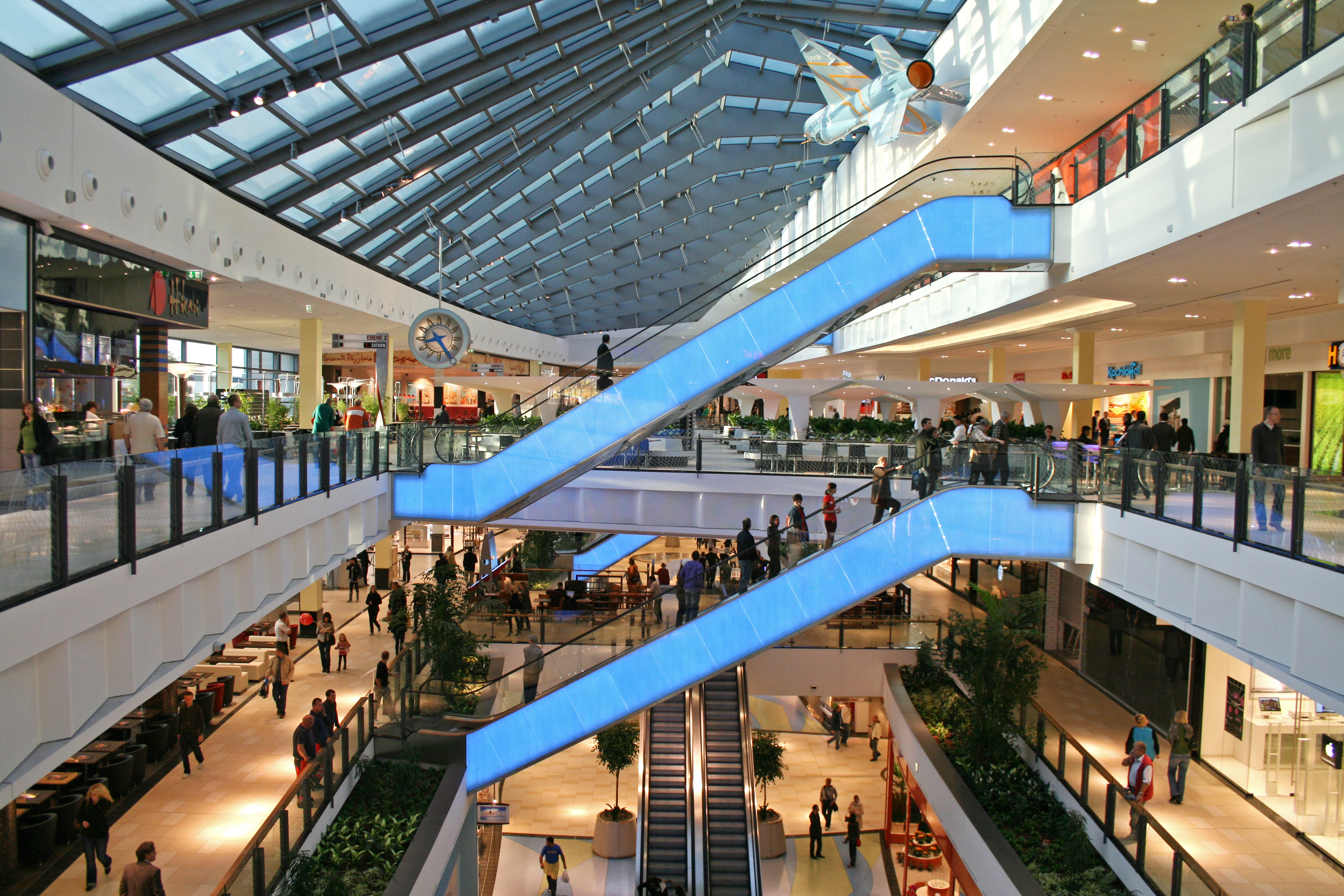 Mall LOOP5 in Weiterstadt (Darmstadt - Hesse - Germany)